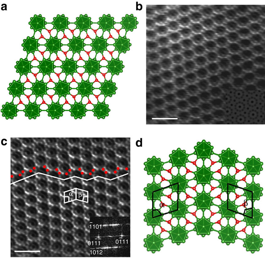 (a) The B6O rhombohedral structure, icosahedral B12 clusters (green colour) and linked oxygen atoms (red colour). (b) The annular bright-field STEM (ABF-STEM) image showing the B12 icosahedra as atomic rings linked between two oxygen atoms along direction. The simulated ABF-STEM image of B6O is inserted at the bottom side. (c) A representative ABF-STEM image showing highly dense nanoscale twin bands within a grain and along the zone axis. Images have been smoothed and Fourier filtered to enhance the contrast of nano-twinned B6O atomic structure (see Supplementary Fig. 9). (b,c) Scale bars, 1 nm. (d) The twinned B6O structure from QM. The measured angles on both sides of the TBs are α=72.0° and β=72.0°, which are consistent agree well with the experimental values of 72.0°±0.3° as shown in FFT pattern (inset c).